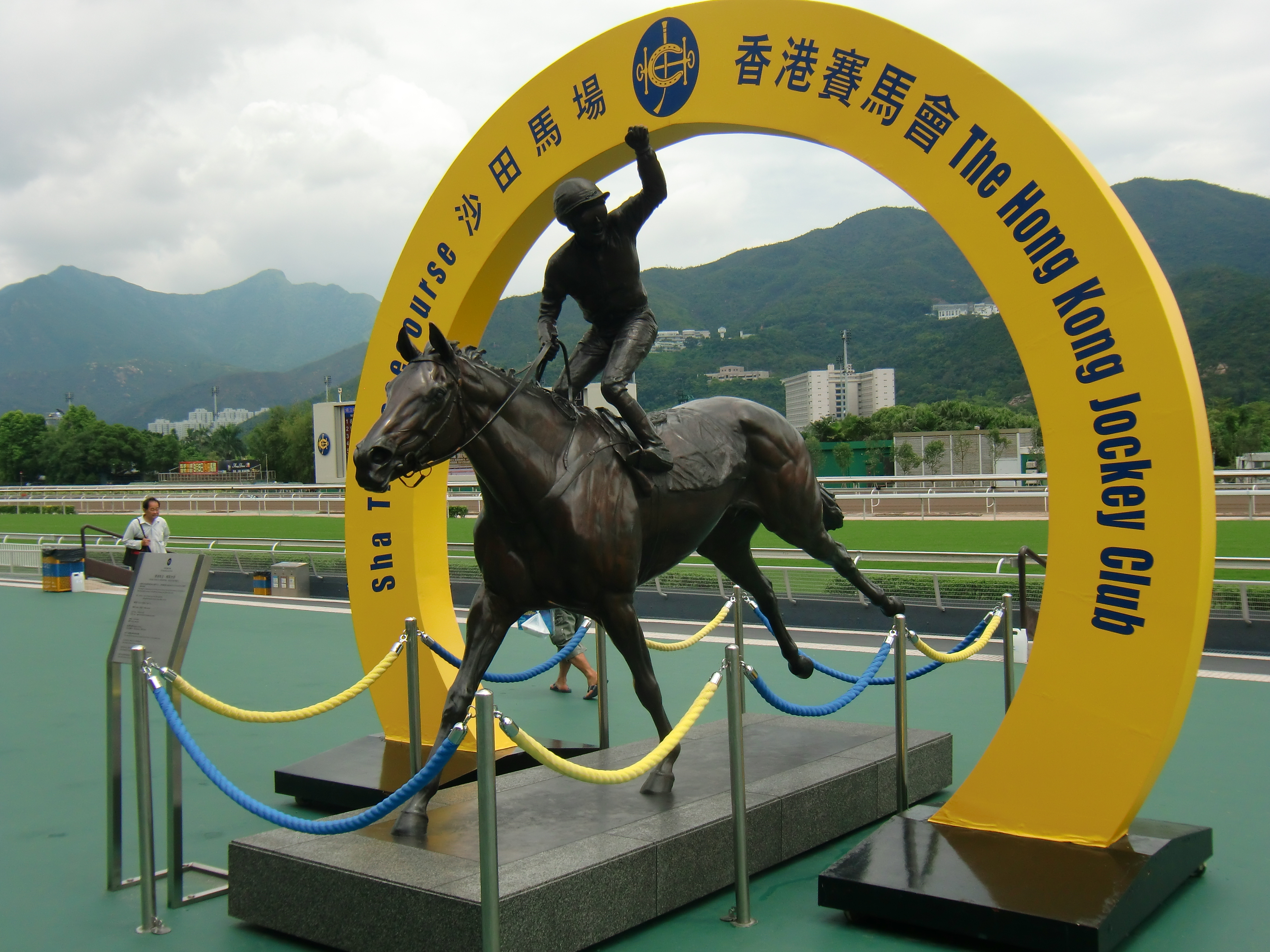 Silent Witness, is a famous racehorses in Hong Kong won 18 races in 29 starts.